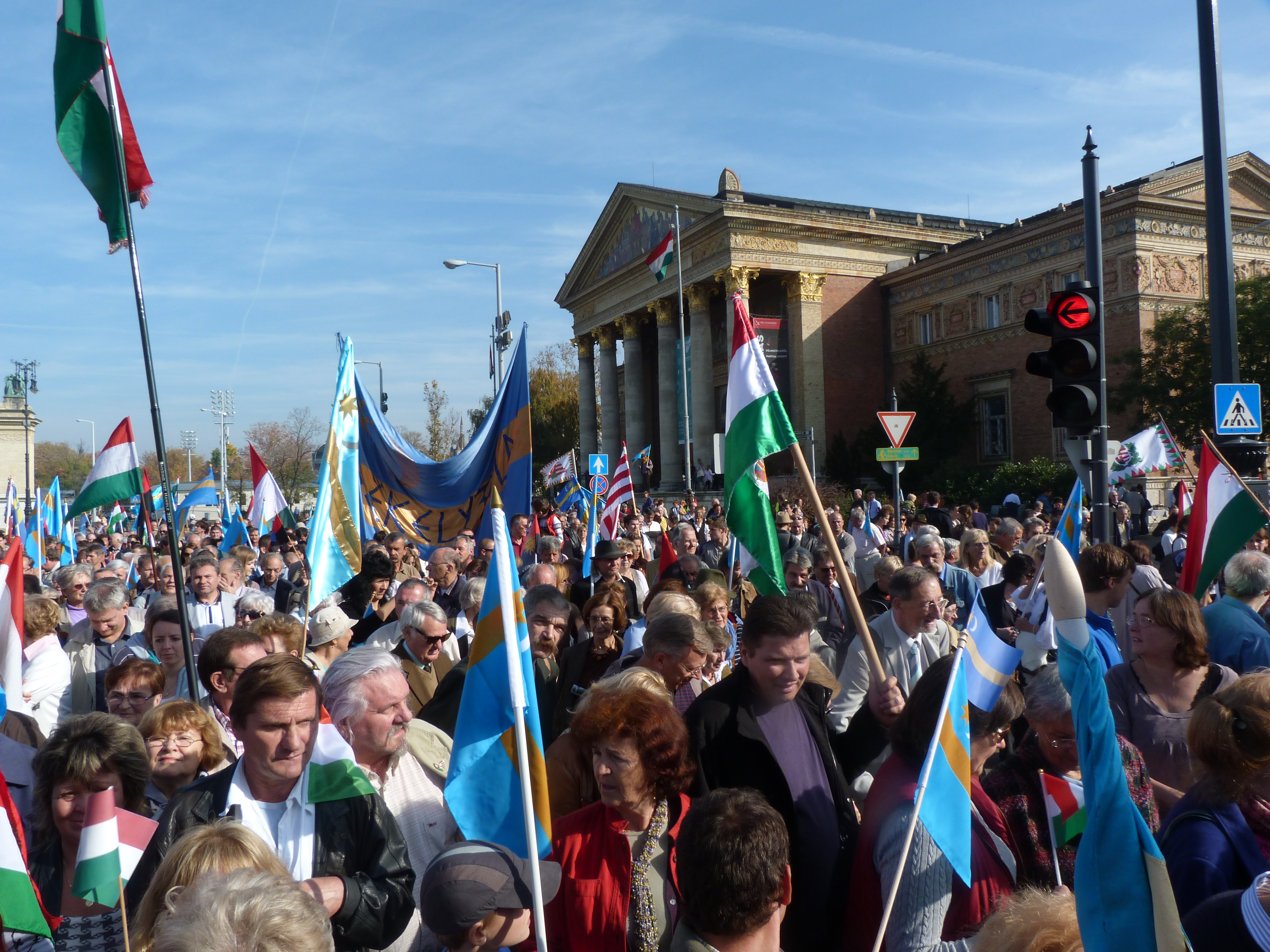 Székely (pronounced [ˈseːkɛj]) Land or Szeklerland (Hungarian: Székelyföld; Romanian: Ţinutul Secuiesc